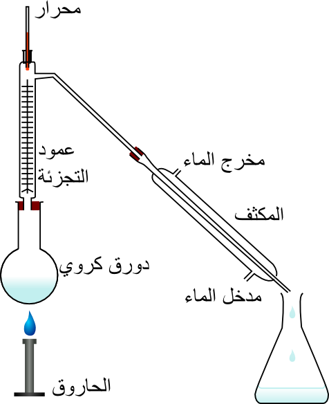 Diagram , drawn by theresa knott. This diagram was created with the drawing tools that come with Microsoft Word. See Wikipedia:How to draw a diagram with Microsoft Word for advice on how to draw diagrams like this.